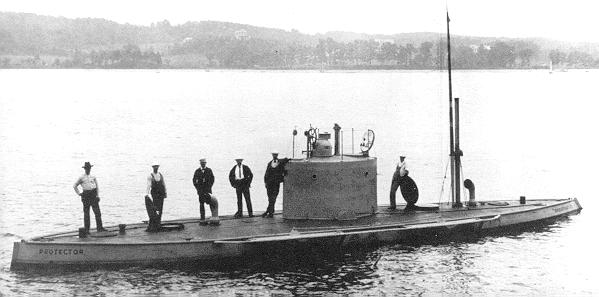 Simon Lake's Protector Submarine